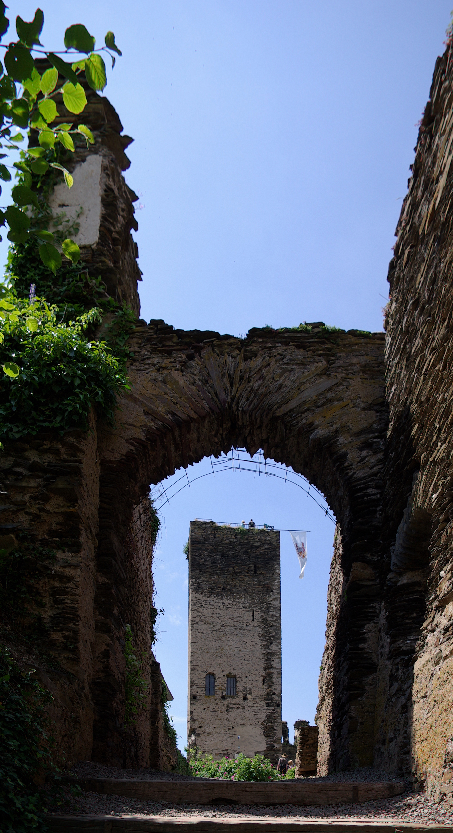 Germany, Metternich Castle at the river Mosel